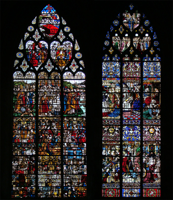 Rouen Cathedral, Seine-Maritime, Normandie, France. Two 16th Century stained-glass windows in the south transept, telling the story of Saint Romain.